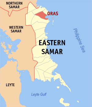 Map of Eastern Samar showing the location of Oras